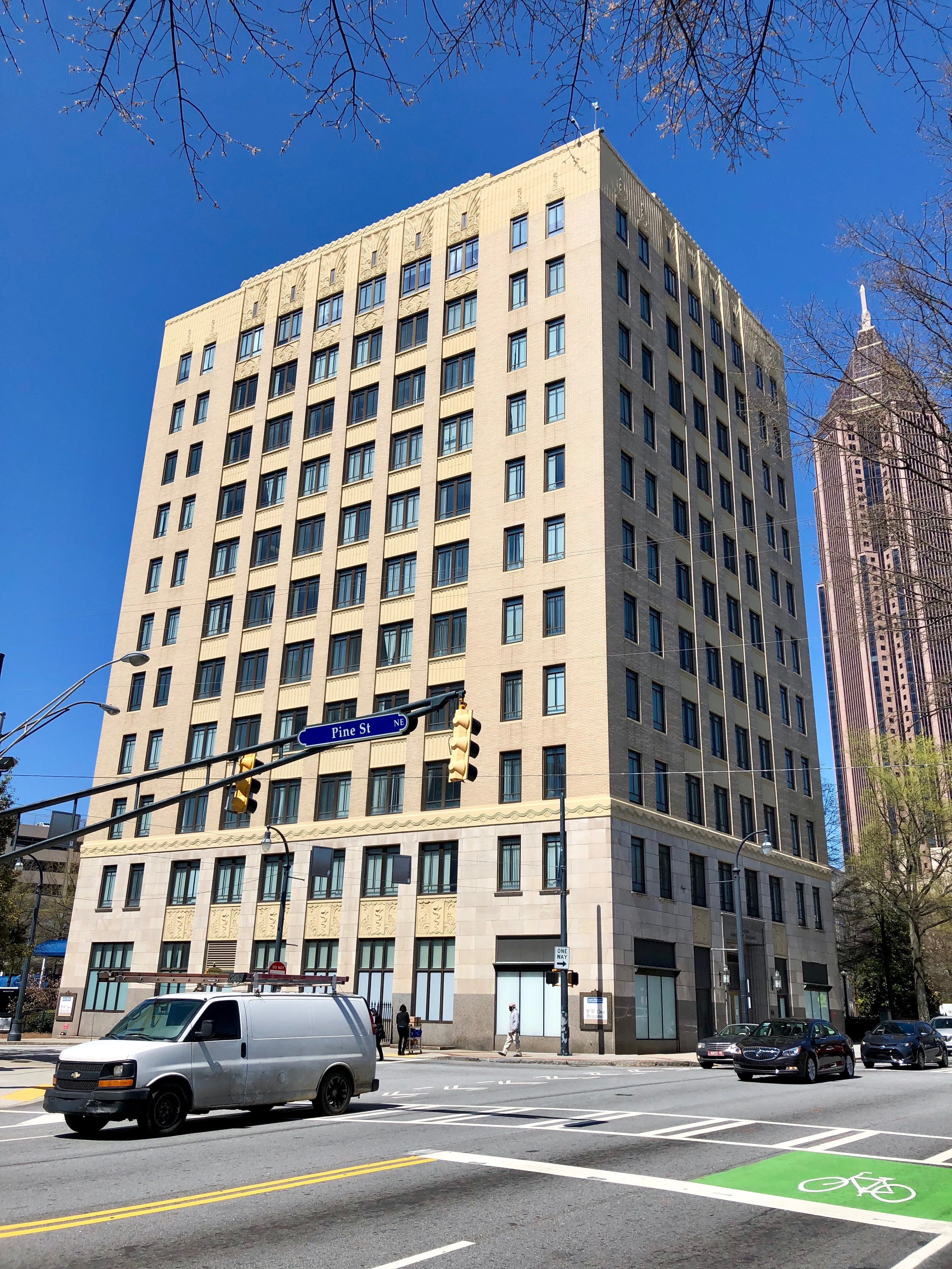 W.W. Orr Doctors Building, Atlanta, GA